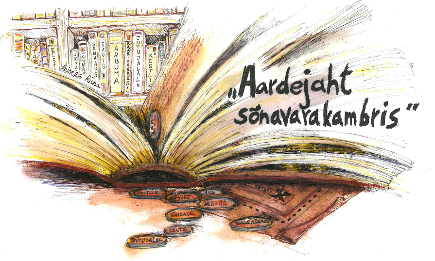 EESi sügispäevad 2018